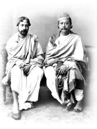 Rabindranath Tagore with the Maharaja of Tripura Radha Kishore Manikya during a visit to Tripura in 1900